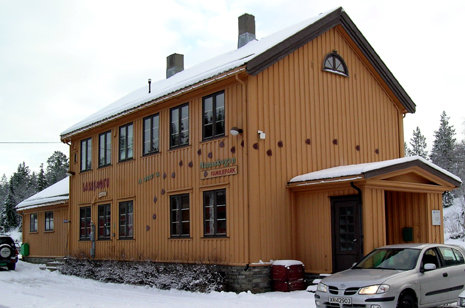 Lassemoen railway station, Nordlandsbanen.